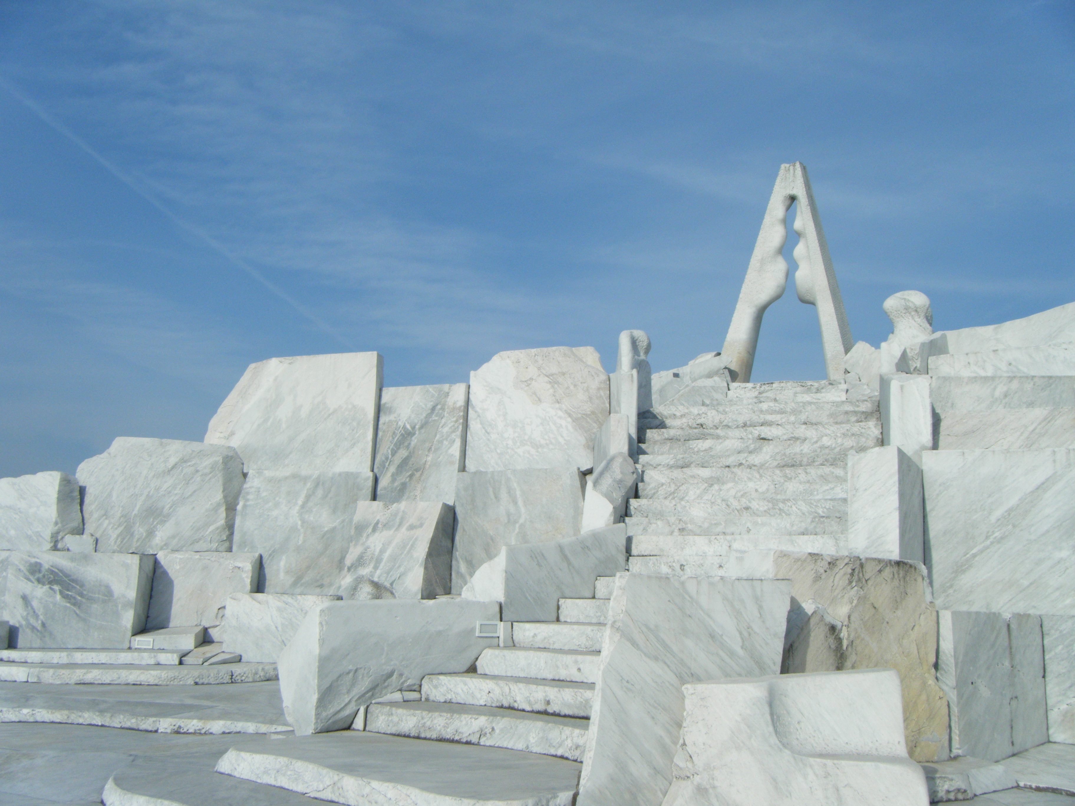 Kōsanji, Onomichi City, Hiroshima Prefecture, Japan.